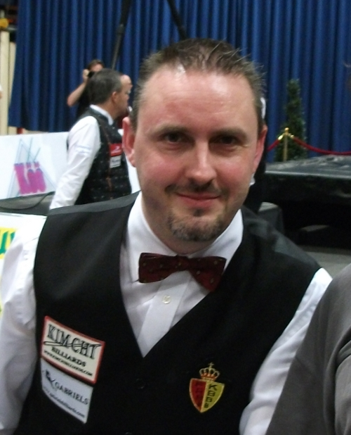 Frédéric Caudron - Belgian professional three-cushion billiards player and multiple world and european champion.